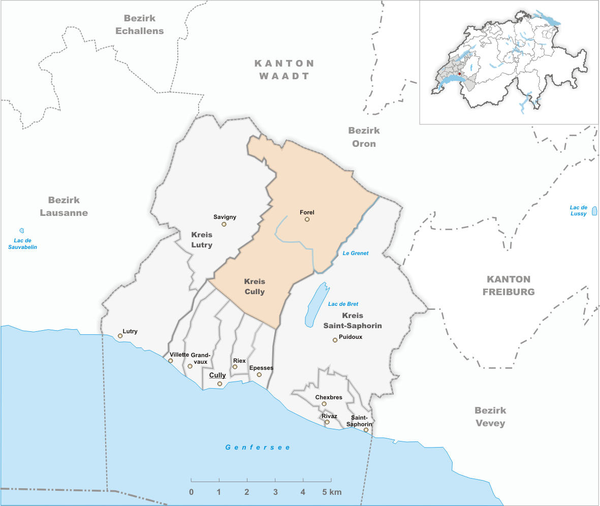 Municipality Forel